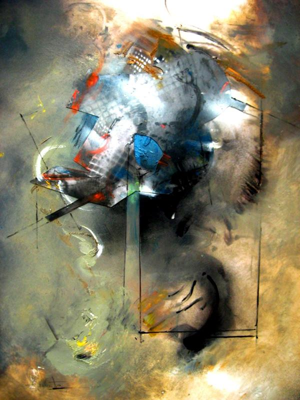 Renacimiento, oil on polipropilene, mixed, 60x76 cm